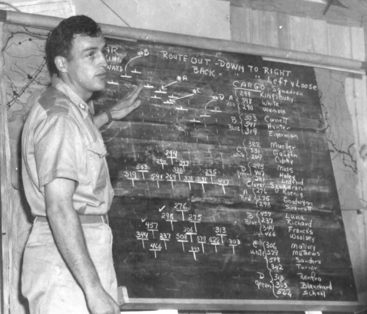 At an American air base in China, Colonel William H. Blanchard describes the plan of attack for XX Bomber Command's Mission 9 in which 109 B-29 bombers against Showa Metal Factory (steel and coke industry) in Anshan, Manchuria on September 26, 1944. Of the 109, 83 bombed the primary target with no losses.